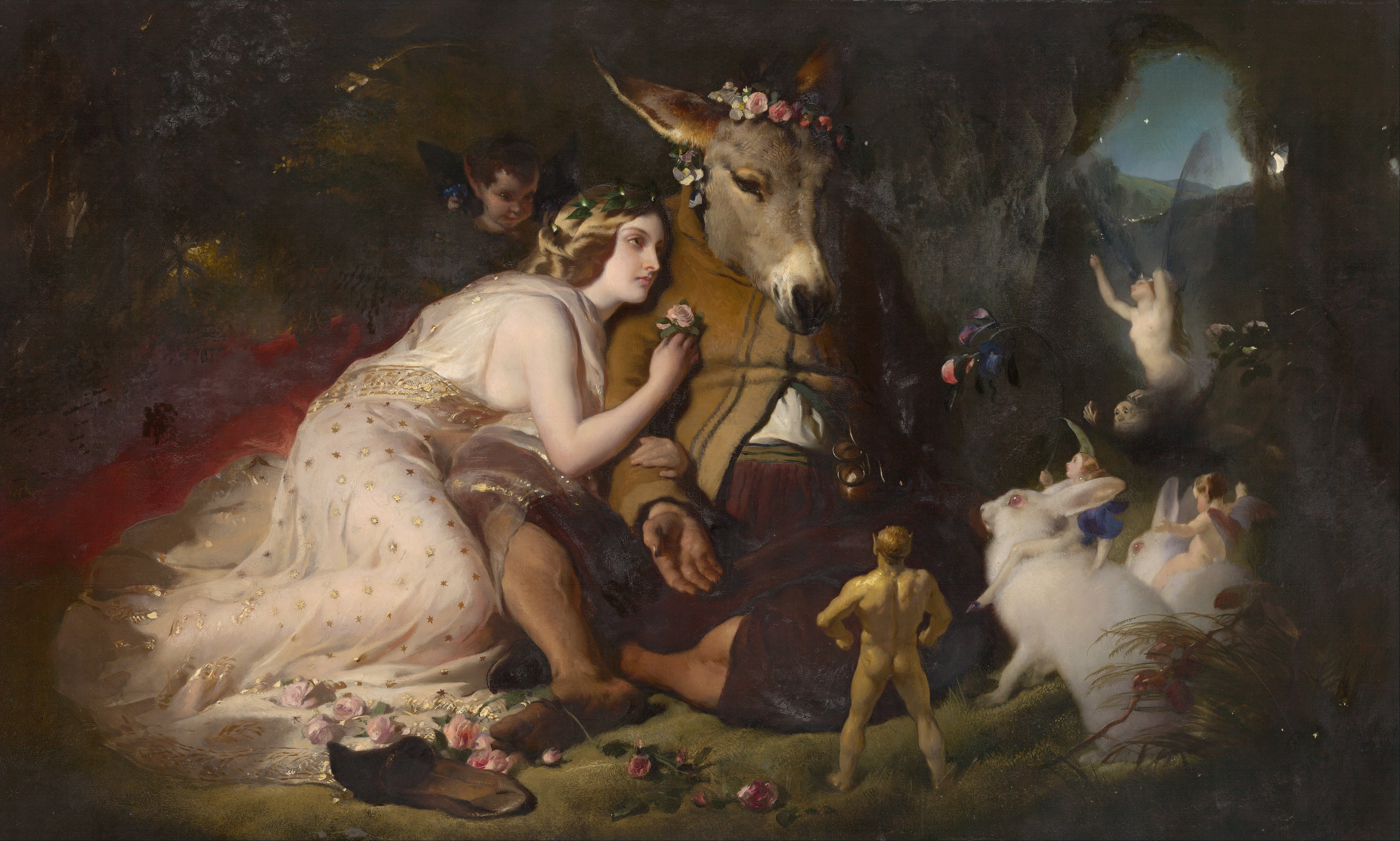 This Edwin Landseer painting was commissioned by the engineer Isambard Kingdom Brunel to hang on his dining room wall as part of a series of Shakespeare-themed works. The painting, its subject likely selected by Landseer for its close ties to animals, was popular from its first exhibition; a young Victoria (future Queen of England) described it as "a gem, beautifully fairy-like and graceful". (Source: Google Art description)